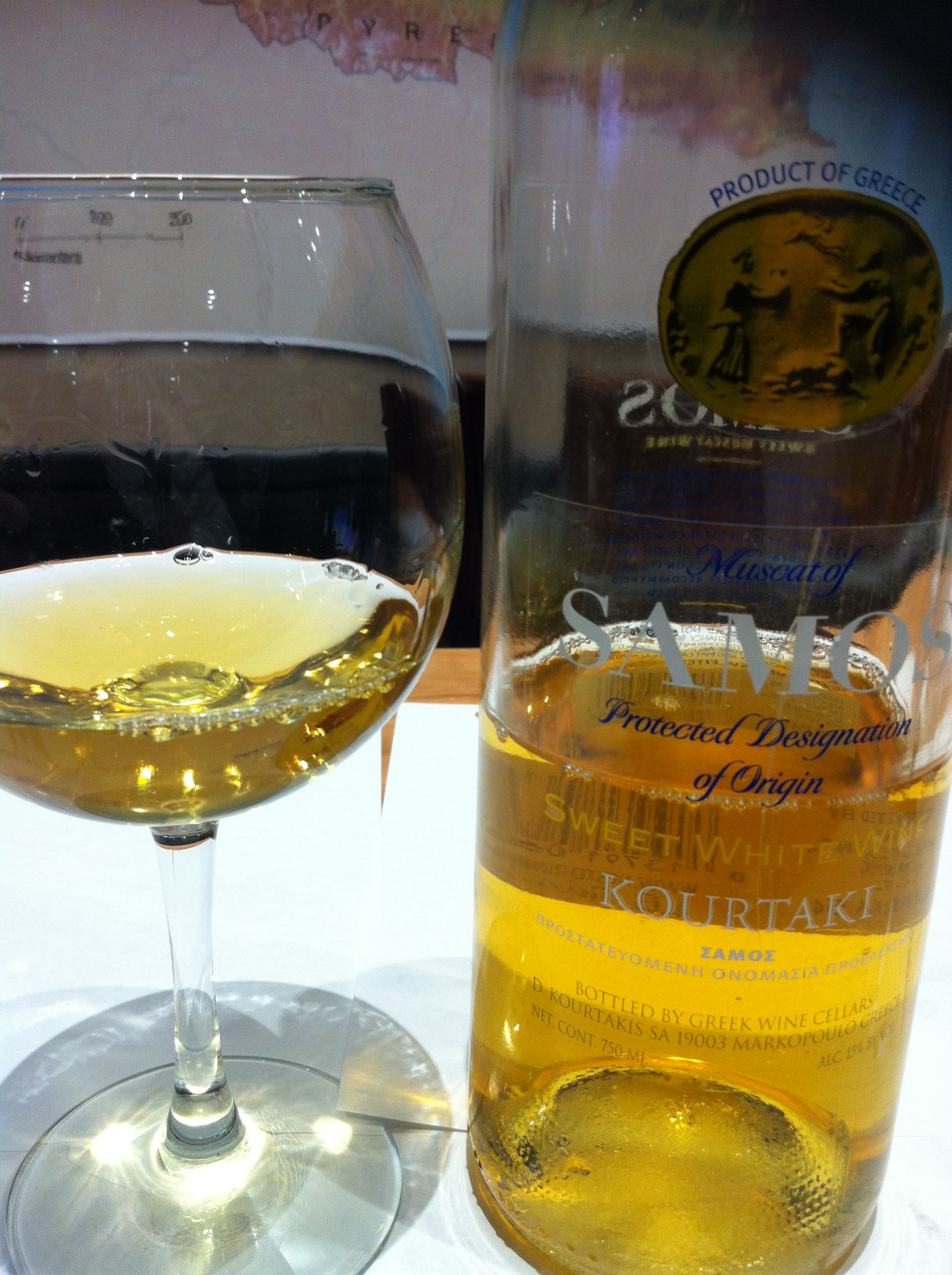 Greek sweet white wine from the island of Samos